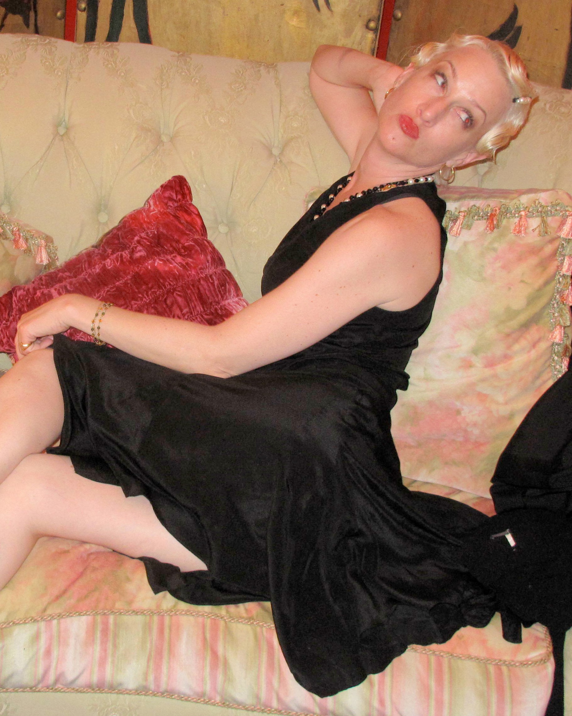 Cintra Wilson, August 28, 2009